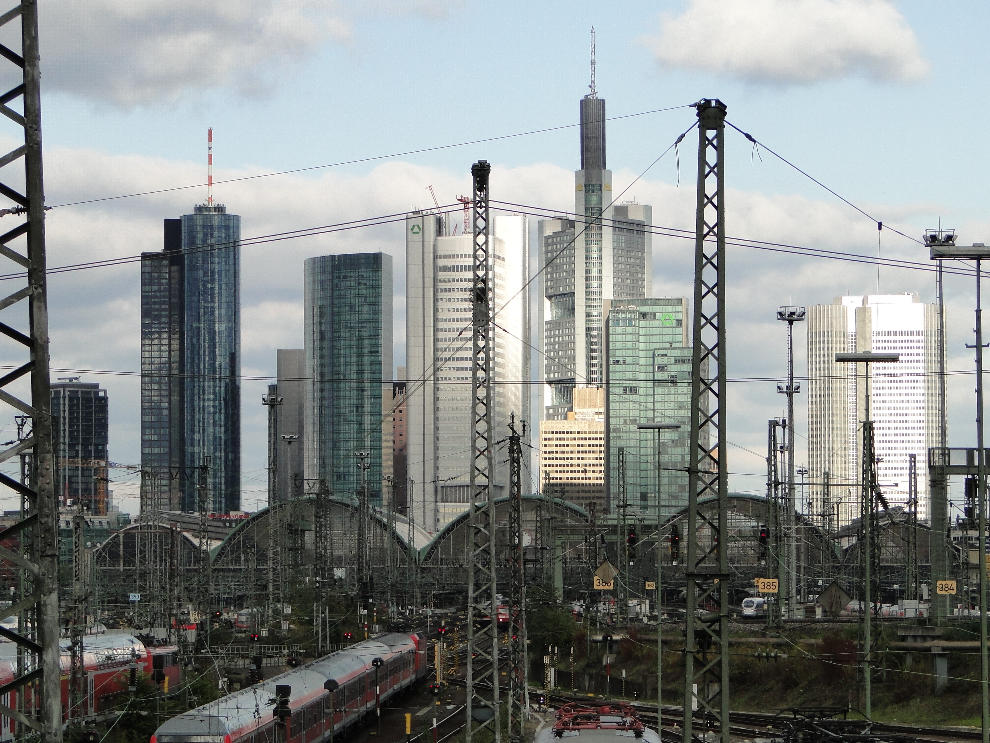 Rear of central station in Frankfurt am Main, seen from "Camberger Bruecke".